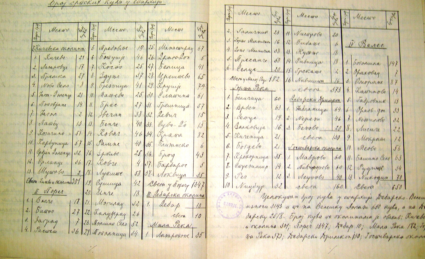 Number of Serbian houses in Debar-Veles Еparchy, report by Metropolitan bishop Polikarto. (February 25, 1904) This media file is produced by Wikipedian in Residence in Category:Wikipedian in Residence at DARM in 2016.